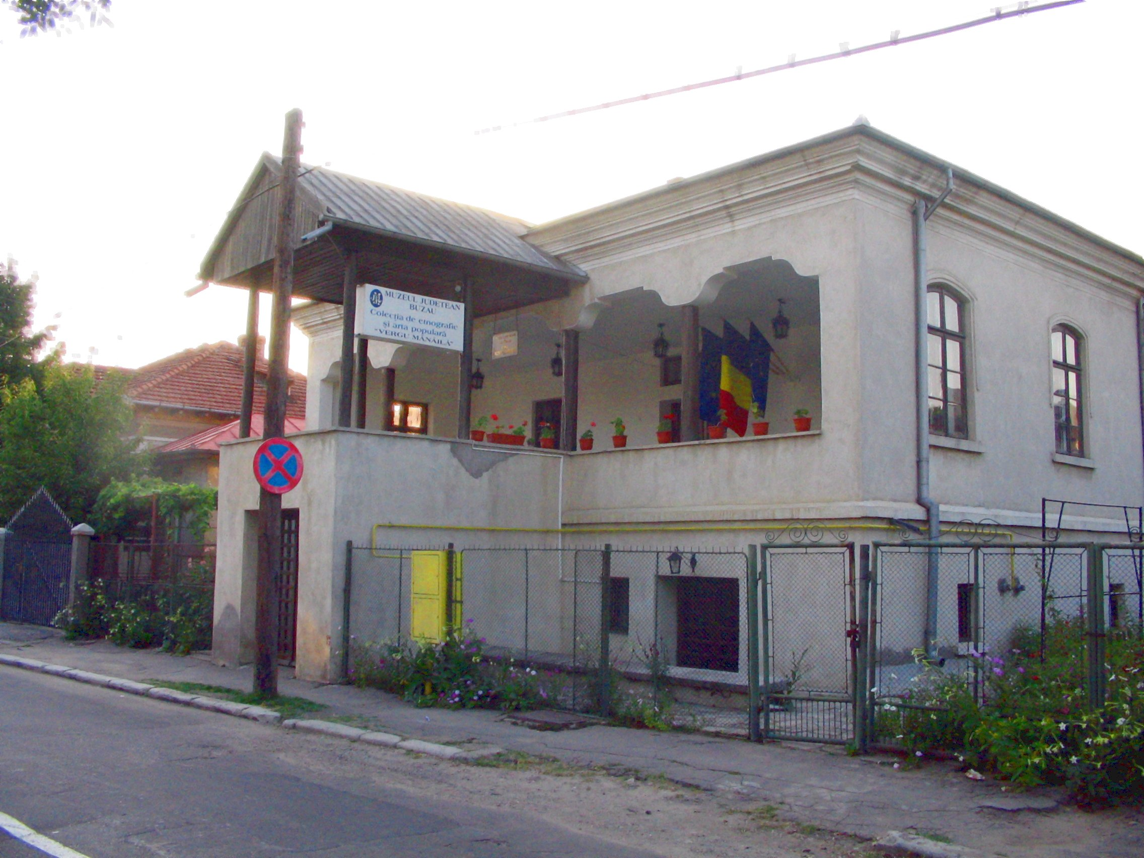 The Vergu-Manaila house, Buzău, România